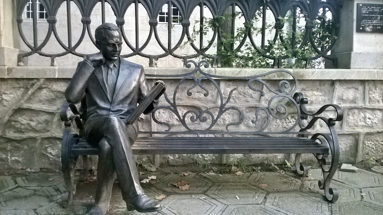 Boris Gaponov, memorial close to the entrance to the Great Synagogue in Kutaisi, August 2016